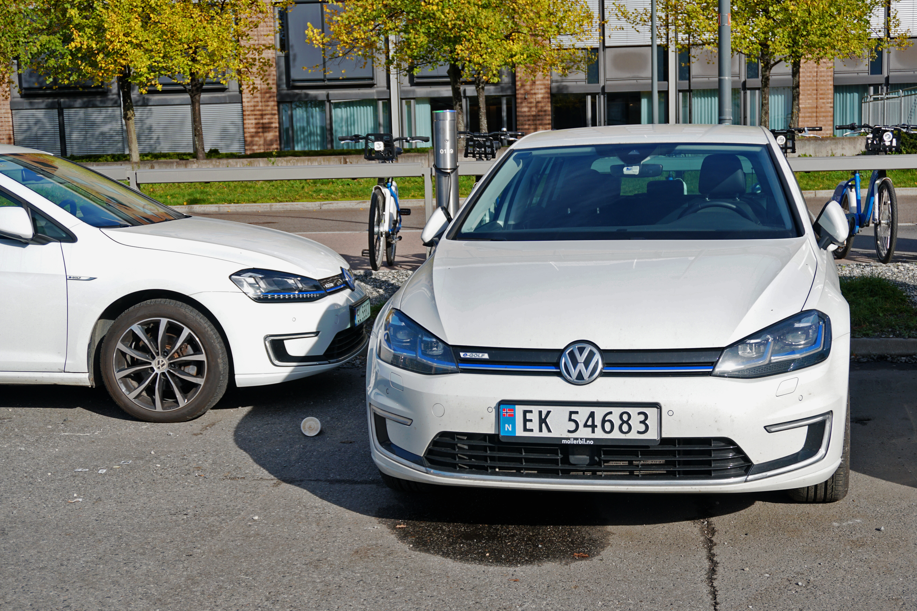 Two Volkswagen e-Golfs at a dedicated parking lot for EVs in Oslo, Norway.